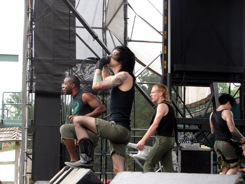 Showbread performing in Mount Airy, PA.